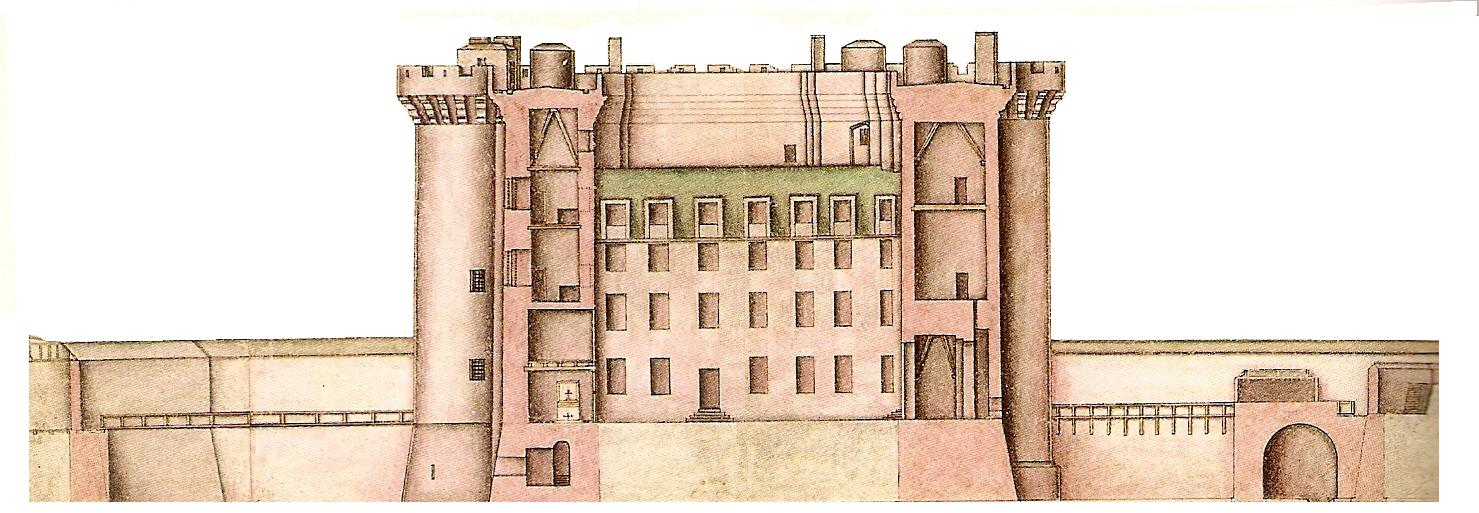 Profile of the Bastille, 1750